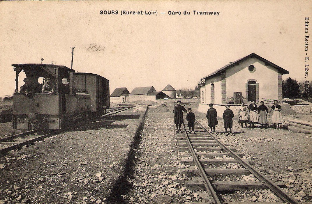 Tramway station, Sours, Eure-et-Loir (France).